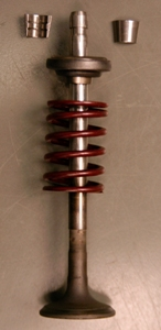 A typical poppet valve and components.